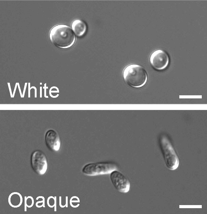 White and opaque isolates of WT strains with an empty control vector, grown on media that induces the MET3 promoter (ON). Images are differential interference contrast photomicrographs of cells resuspended from colonies.